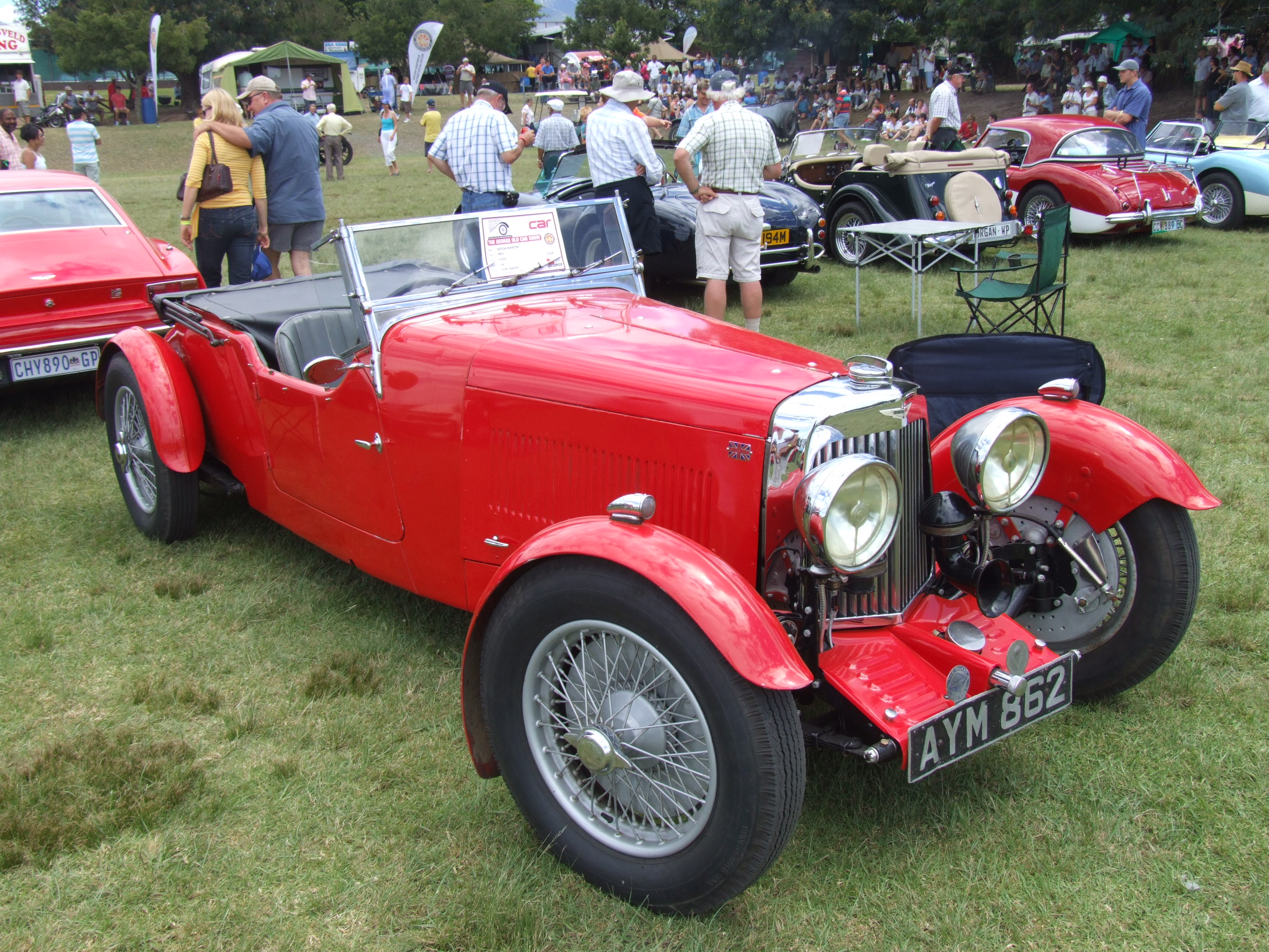 1938 Aston Martin